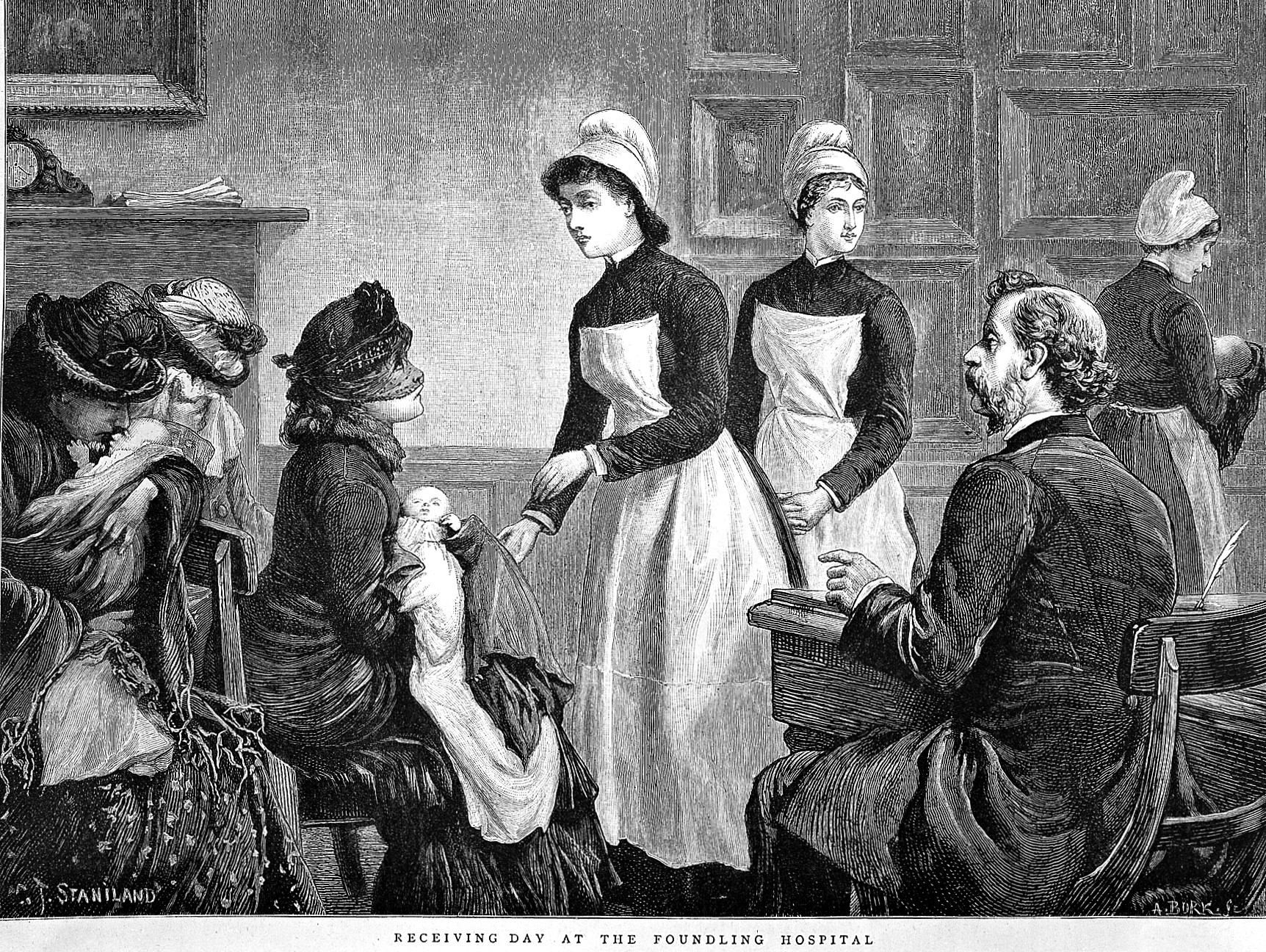 Receiving day at the Foundling Hospital. Wellcome Images Keywords: Institutions